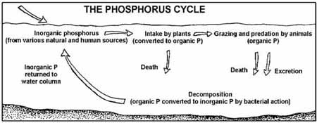 Diagram of the aquatic phosphorus cycle.